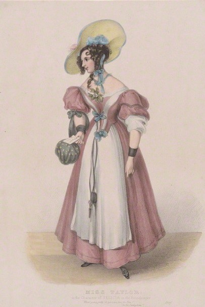 Portrait of Harriette Deborah Lacy (1807–1874), English actress, in character as Felicia in The Housekeeper by Douglas William Jerrold; hand-coloured lithograph.